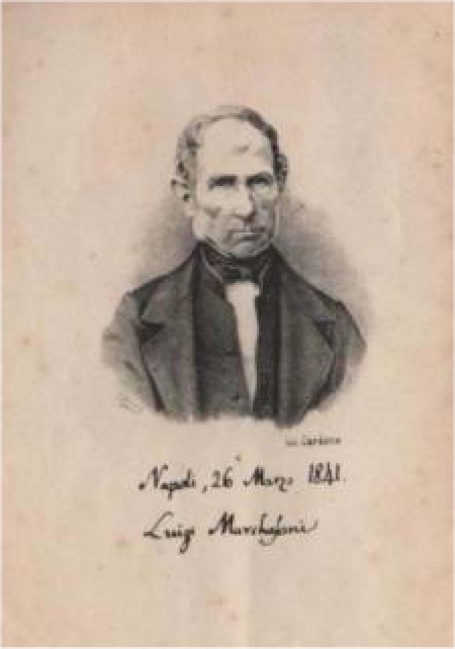 Luigi Marchersani, from the book Giacomo Tommasi Cenni biografici di Luigi Marchesani da Vasto medico dell'ospedale degl'incurabili socio onorario dell'accademia medico-chirurgica di Napoli socio corrispondente dell'accademia ercolanense e dell'archeologica di Roma / pel concittadino teologo can.co cantore, Napoli, Vella, 1879.